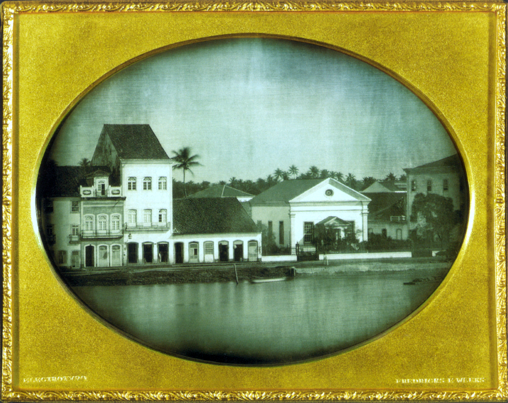 Daguerreotype of Recife, capital of Pernambuco, Brazil, 1851.